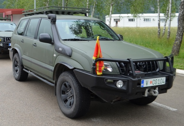 MMV SURVIVOR